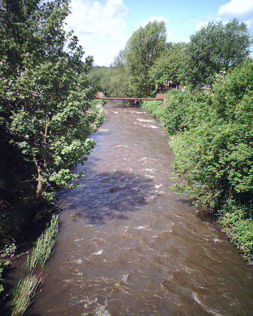 River Douglas at Appley Bridge. Looking downstream (roughly north west) from the bridge. The bridge was rebuilt in 1903.